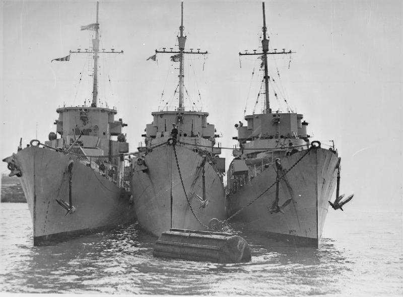 The Royal Navy during the Second World War The American built Captain Class frigates (acquired under the Lend Lease scheme), HMS BERRY, HMS DUCKWORTH, and HMS ESSINGTON, seen in Plymouth harbour after returning from convoy escort duty.